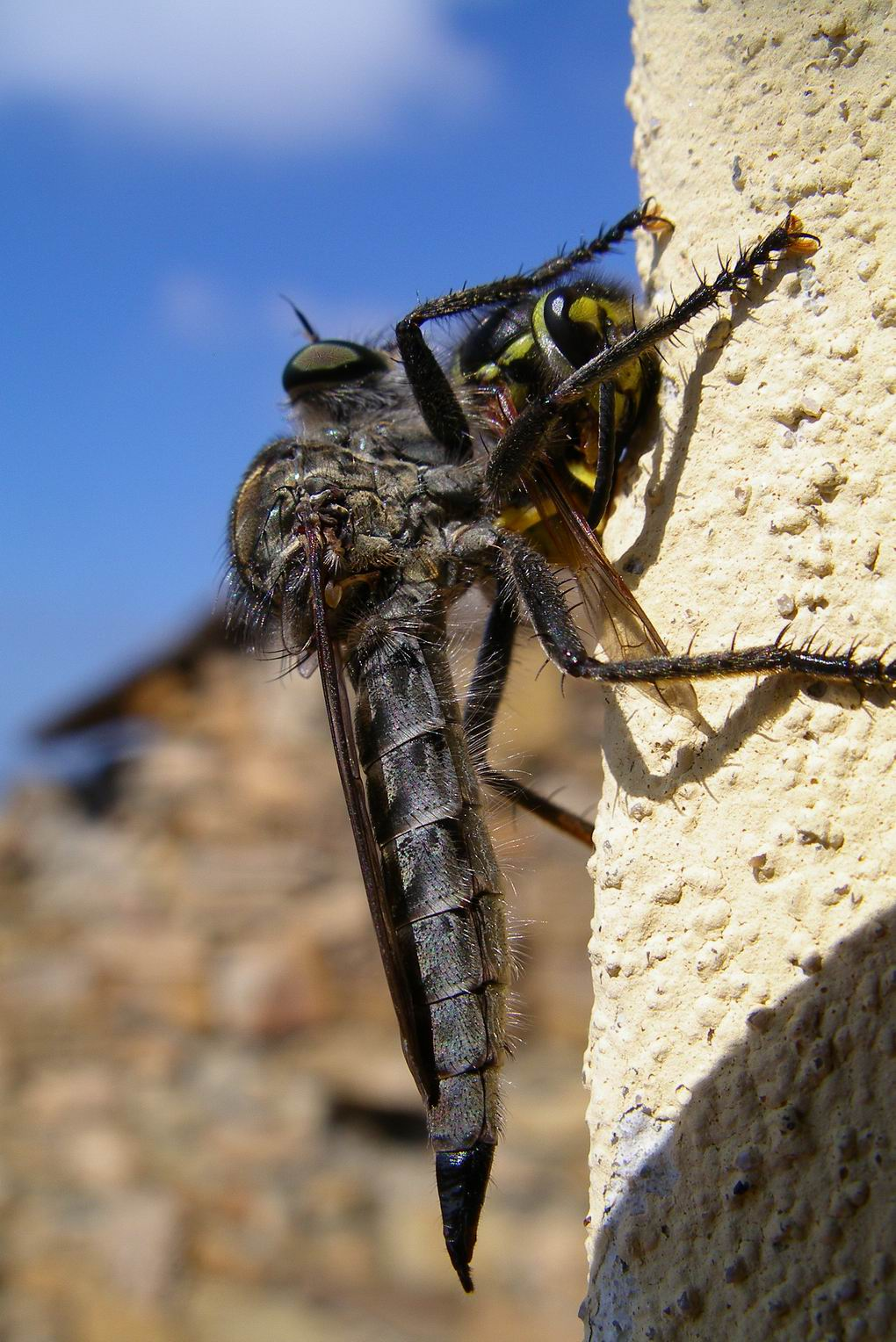 A robber fly (genus: Asilidae) feeding on a wasp.